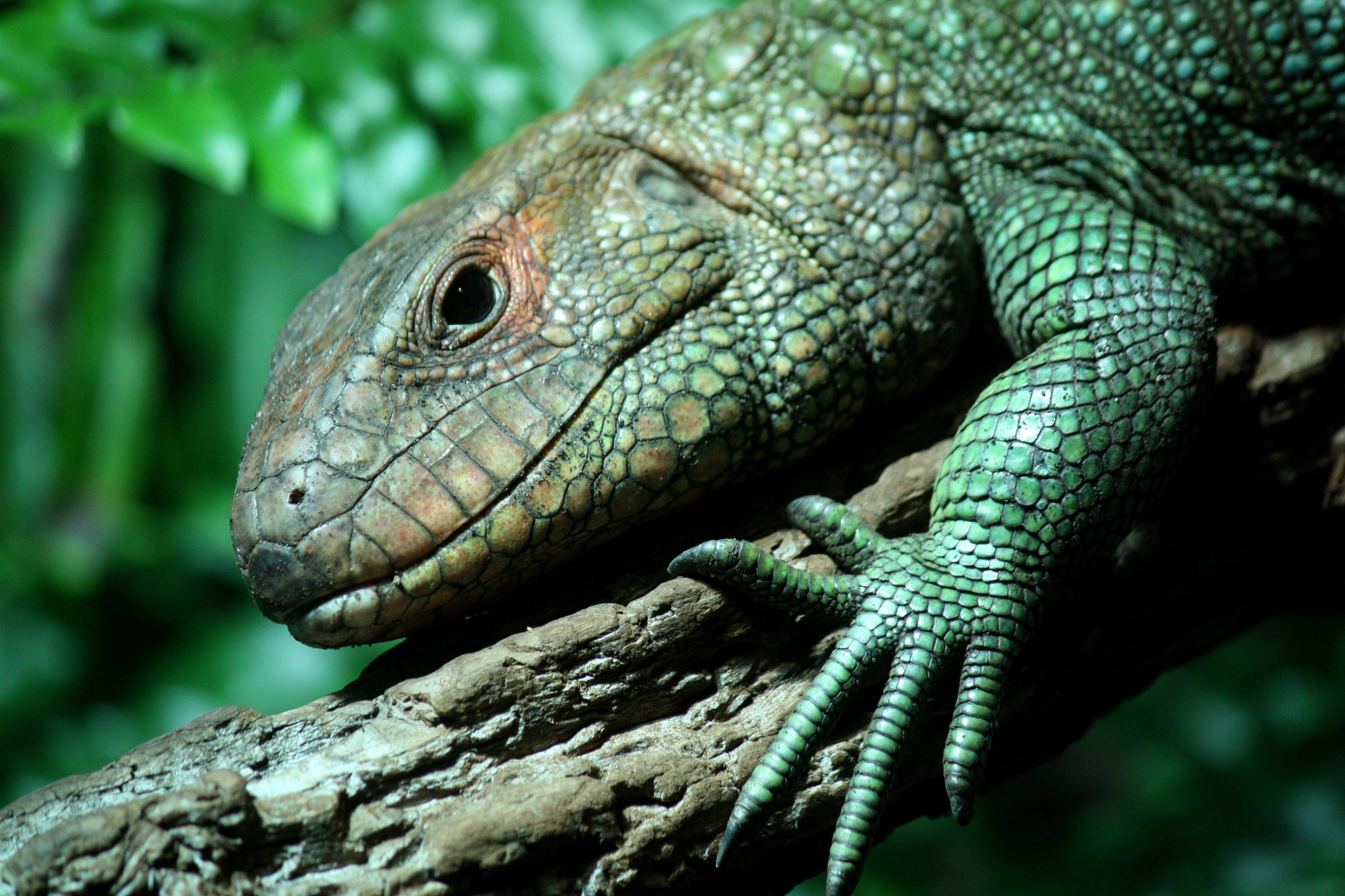 Caimen Lizard "Dracaena guianensis at the Nashville Zoo